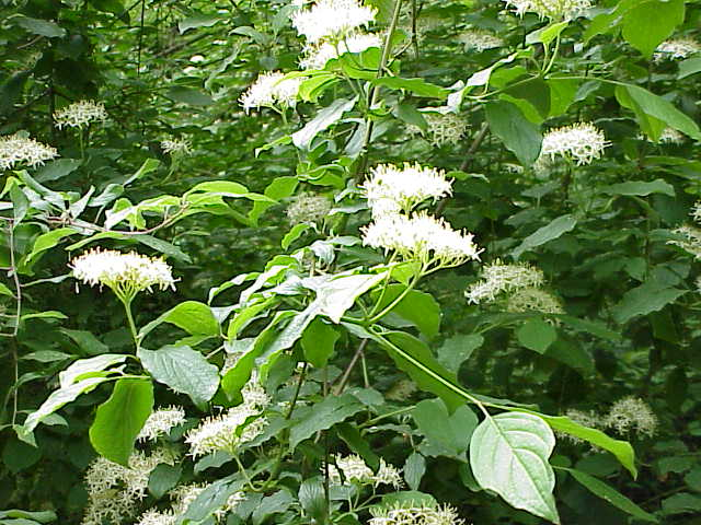 Species: Cornus sanguinea Family: Cornaceae Image No. 4